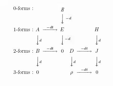 Deschamps graph spq